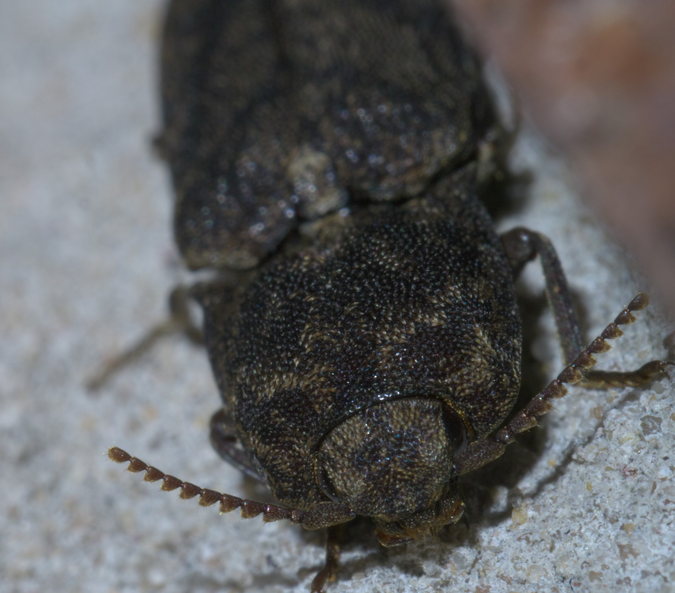 Lacon marmoratus, Marbled Click Beetle, ID Confidence: 98